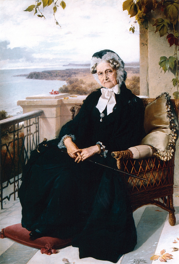 Princess Alexandrine of Prussia (23 February 1803–21 April 1892), Grand Duchess of Mecklenburg-Schwerin